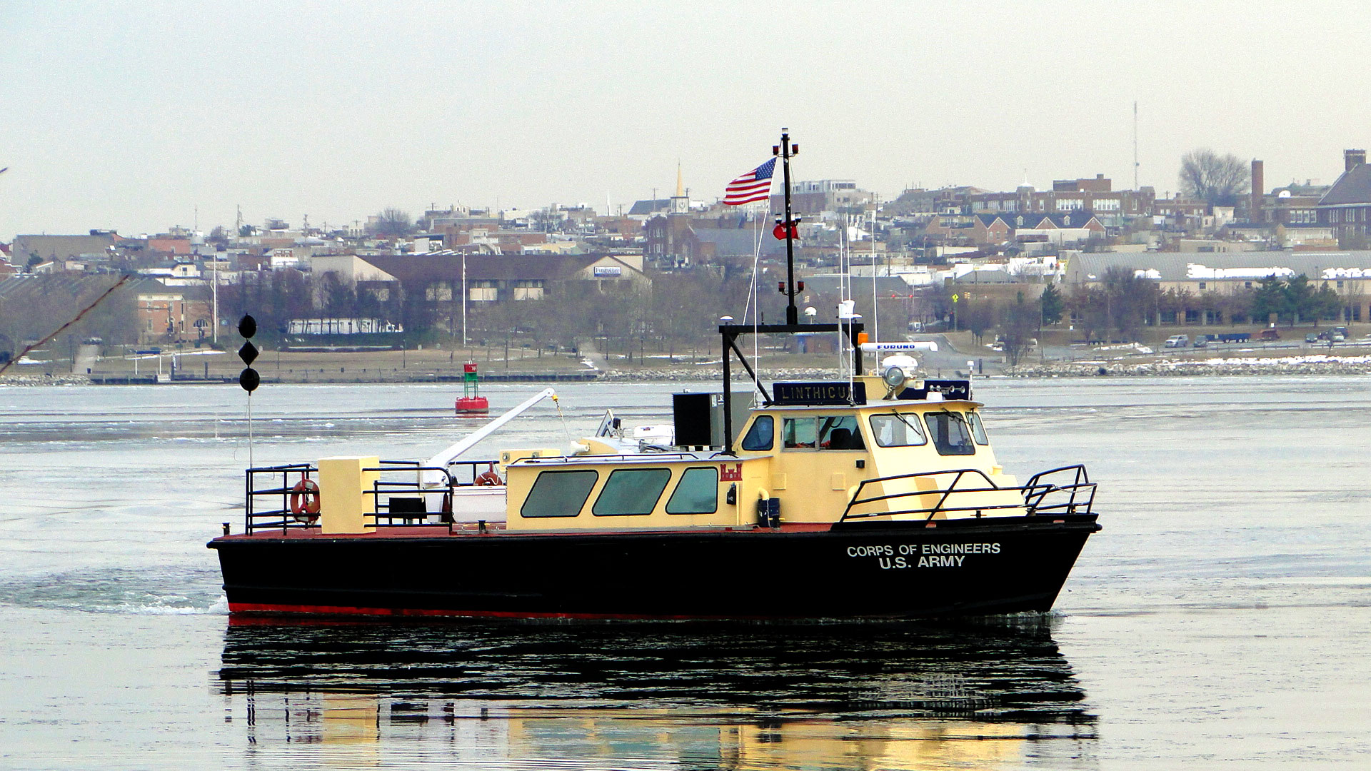 A local boater captured this photo of the Linthicum at Fort McHenry last week. The Linthicum, a 45-foot survey vessel, works in support of our deep draft survey mission in a 50 foot main shipping channel. The hydrographic survey section relies on two 21-foot aluminum, outboard-powered, trailerable survey launches. They spend a majority of each week rotating to many of the District’s remote navigation projects.